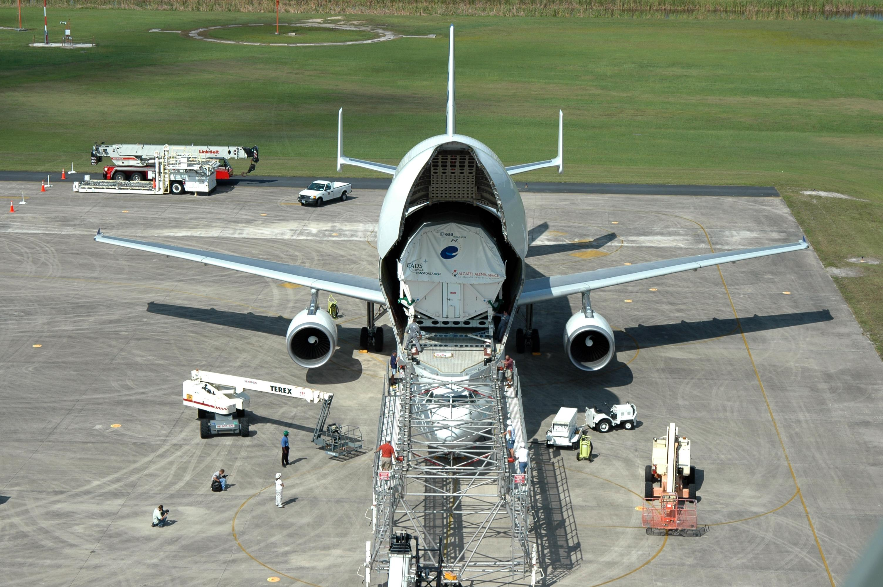 KENNEDY SPACE CENTER, FLA. – At the Shuttle Landing Facility, the European Space Agency's research laboratory, designated Columbus, is being offloaded onto an Airbus Transport International platform. The module will be lifted onto a flat bed truck and transported to the Space Station Processing Facility. There the module will be prepared for delivery to the International Space Station on a future space shuttle mission. Columbus will expand the research facilities of the station and provide researchers with the ability to conduct numerous experiments in the area of life, physical and materials sciences.